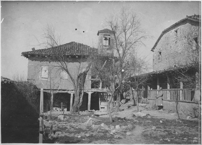 Village of Voshtarani/ Meliti, Greece